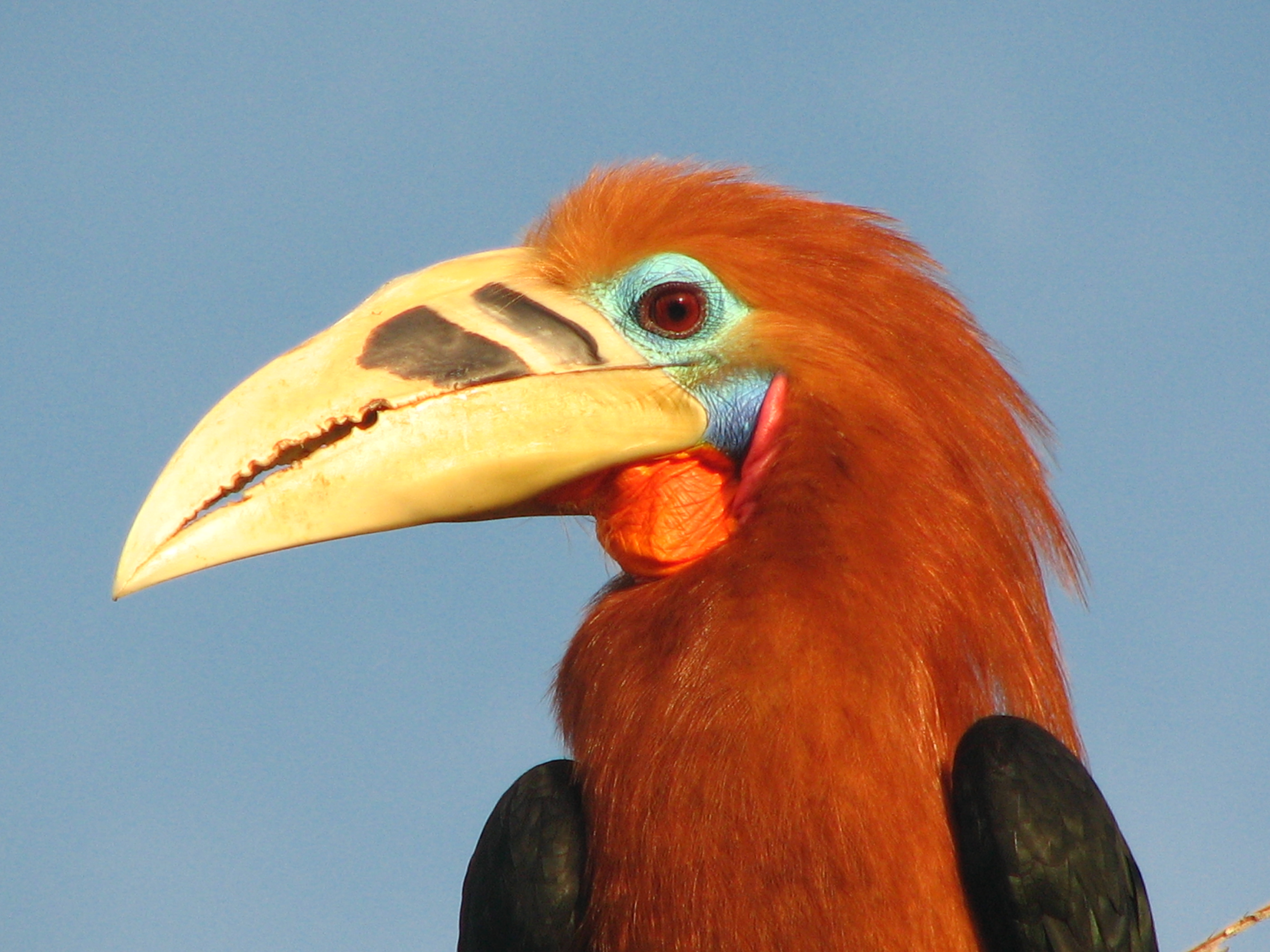 Rufous-necked hornbill (Aceros nipalensis) from Namdapha Tiger Reserve, Arunachal Pradesh, India